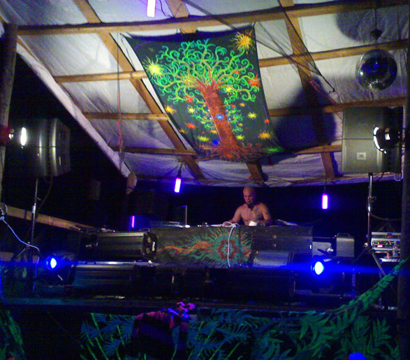 DJ Proteus performing at the Konemetsä 2007